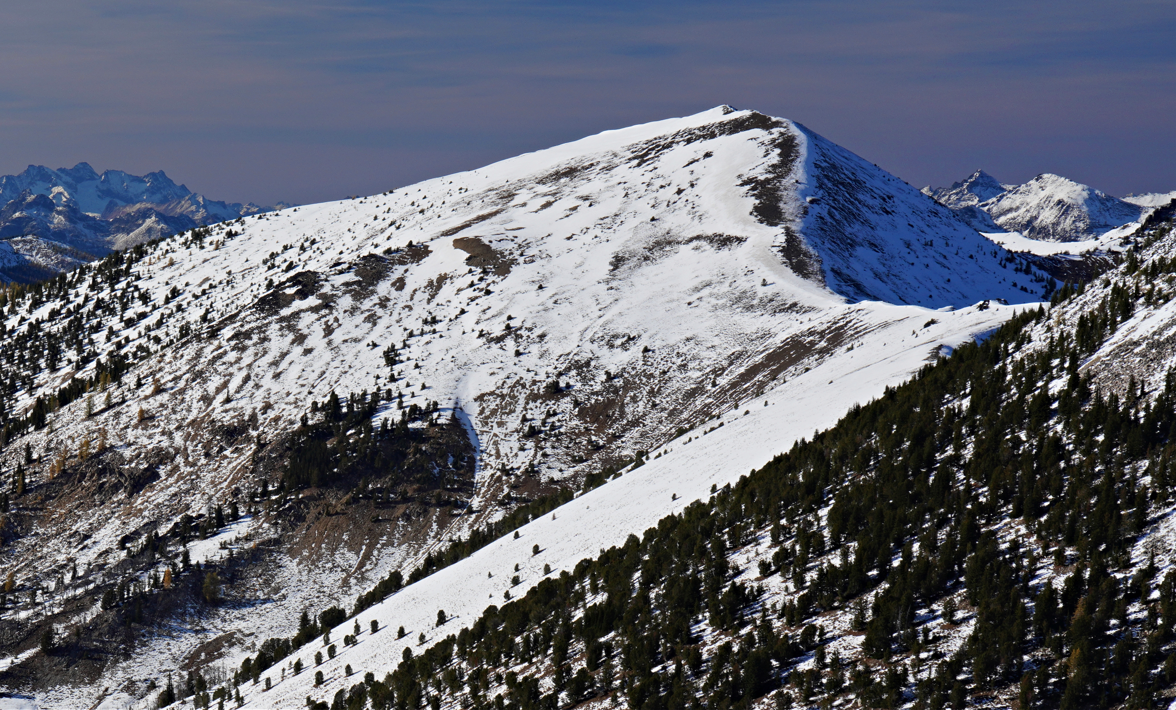 Gray Peak from southeast. North Cascades